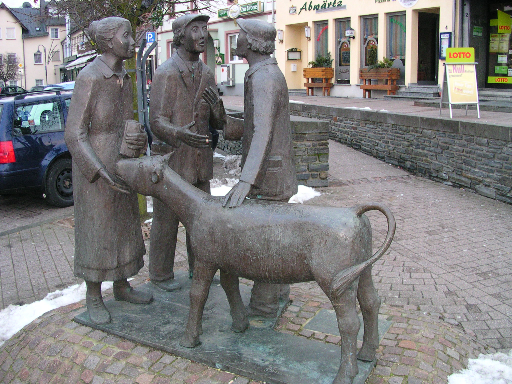 memorial for the restauration of Morbach